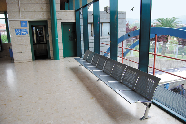 Euskotren Sondika station hall